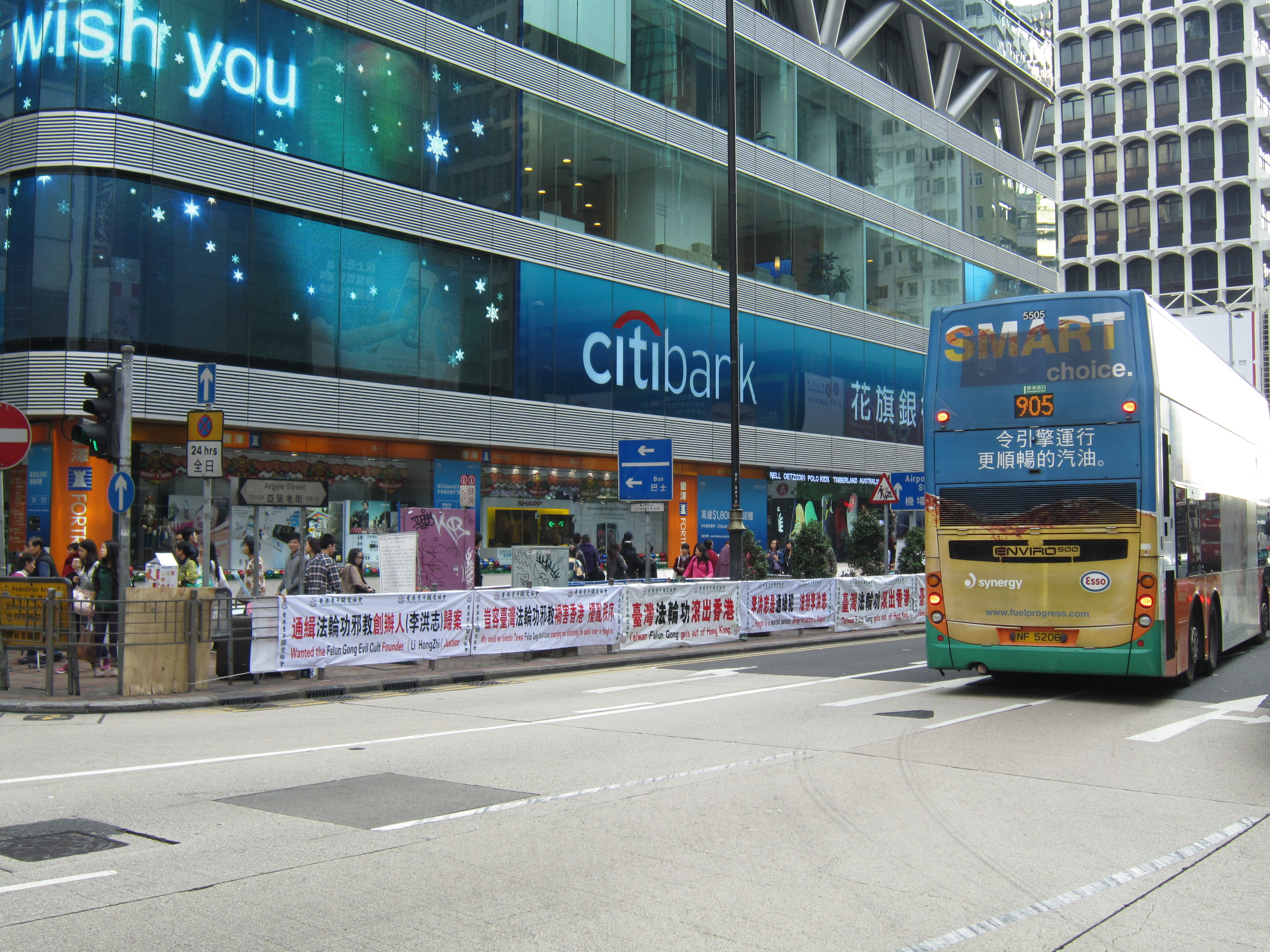 HKYCA banners in Mong Kok